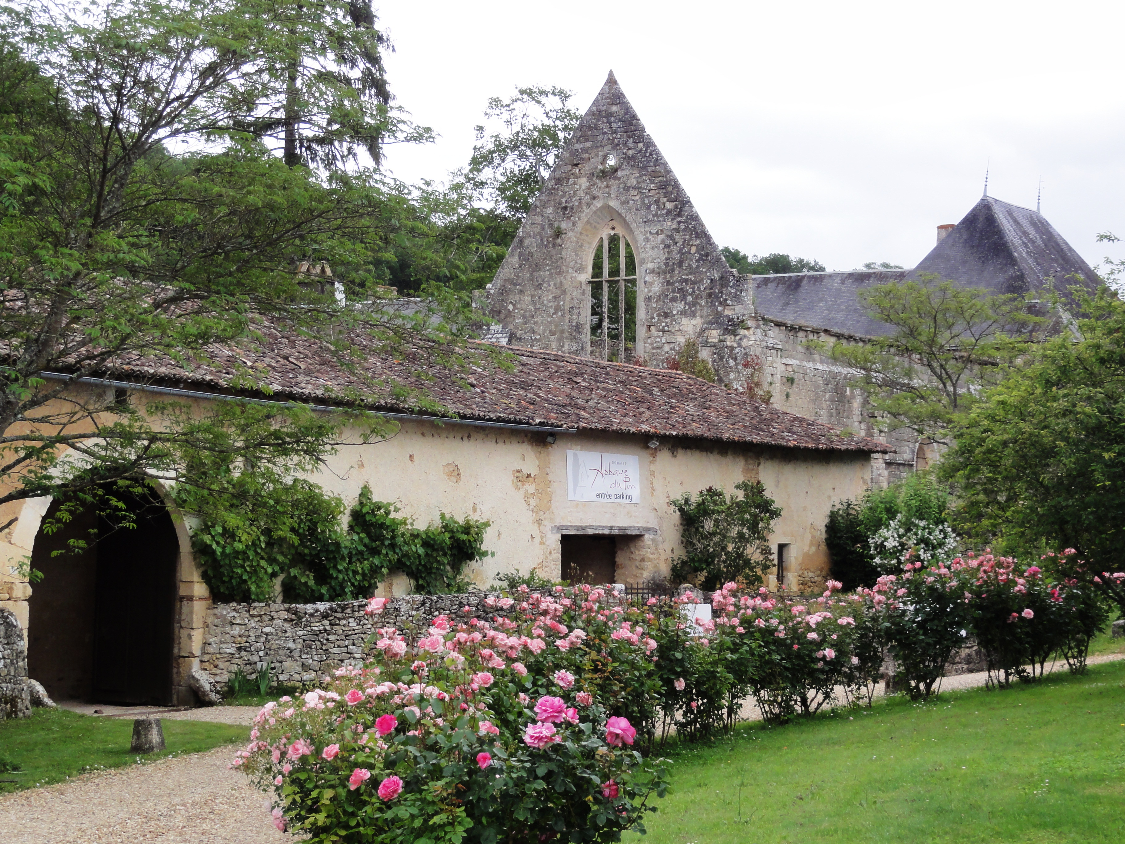 Béruges (Vienne) Abbaye du Pin This building is en partie classé, en partie inscrit au titre des Monuments Historiques. .